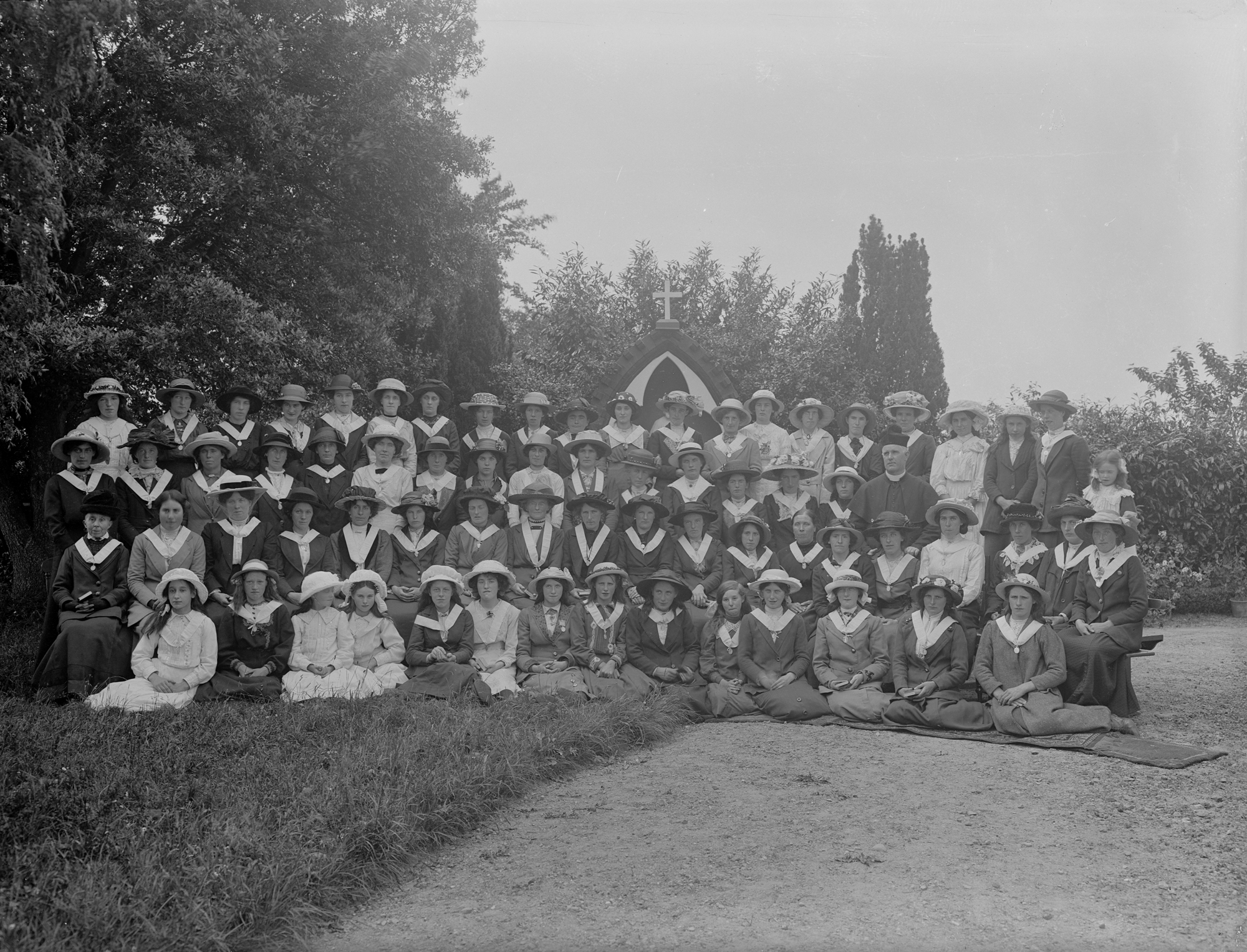 Group, Children of Mary. : commissioned by Rev. Mother, Convent of Holy Faith, Mullinavat. Today we will see the living rather than the dead, this fine group of young ladies in their regalia from the Poole Collection! "These Children of Mary Sodalities first embraced the pupils and orphans of the schools and institutions of the Sisters of Charity of St Vincent de Paul.....The badge adopted by the Children of Mary Immaculate is the miraculous medal, suspended from a blue ribbon. The Children of Mary organization flourished in the mid 20th century. Young women went through a period of aspirancy of six months prior to acceptance as a fully fledged child of Mary, who had the right to wear the distinctive blue cape and carry the blue cape of a Child of Mary. When a Child of Mary married, she was embraced on arrival on the Church steps by other Children of Mary who removed the blue cape from over her wedding gown." Photographer: A. H. Poole Collection: Poole Photographic Studio Date: Circa 13th June 1915 NLI Ref: POOLEWP 2613a You can also view this image, and many thousands of others, on the NLI’s catalogue at